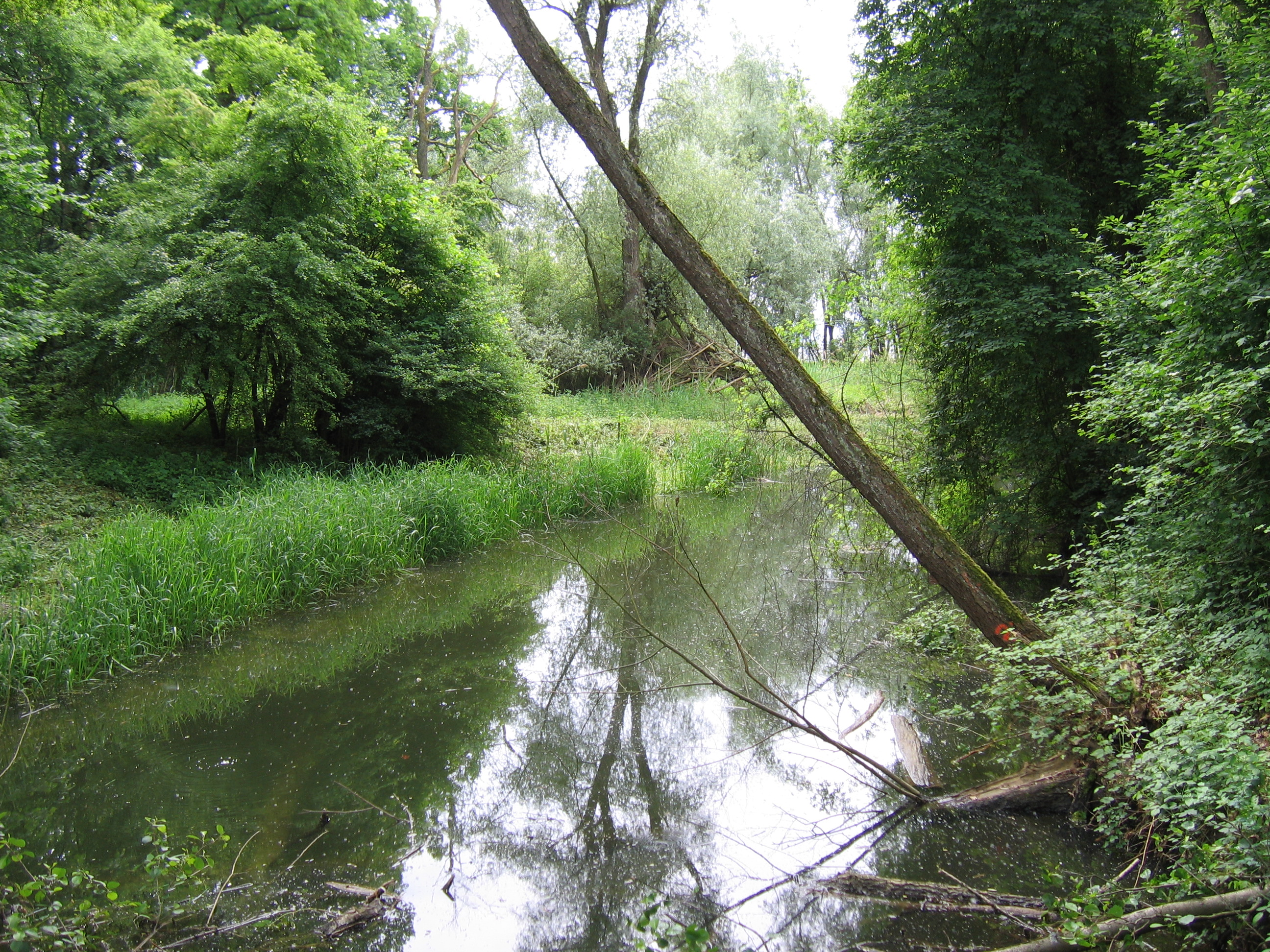 Germany - Baden-Württemberg - Bodenseekreis - Friedrichshafen/Immenstaad: river Lipbach, close to the onfluence into the Lake Constance